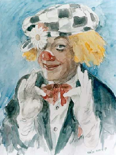 Popov, painting in waterclour by Marion Baars.